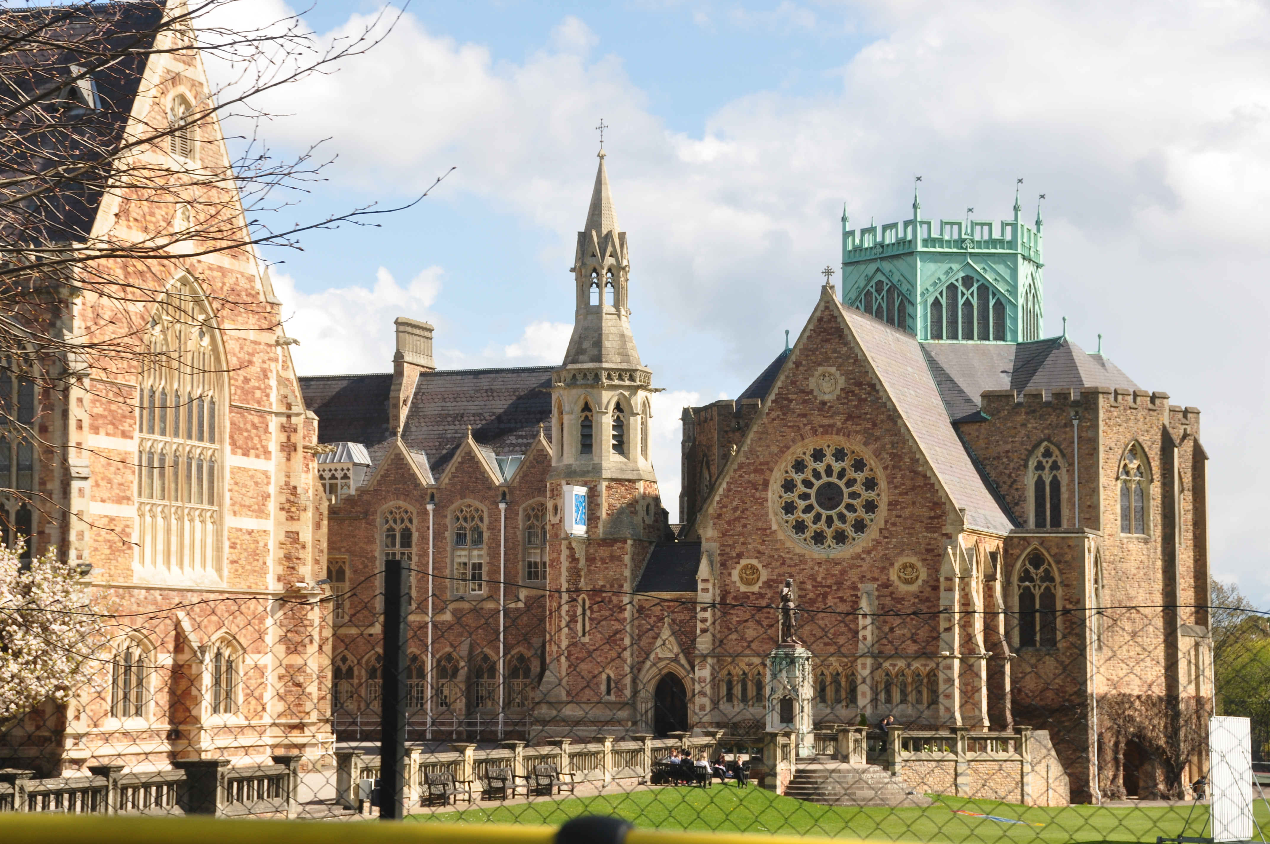 Clifton College